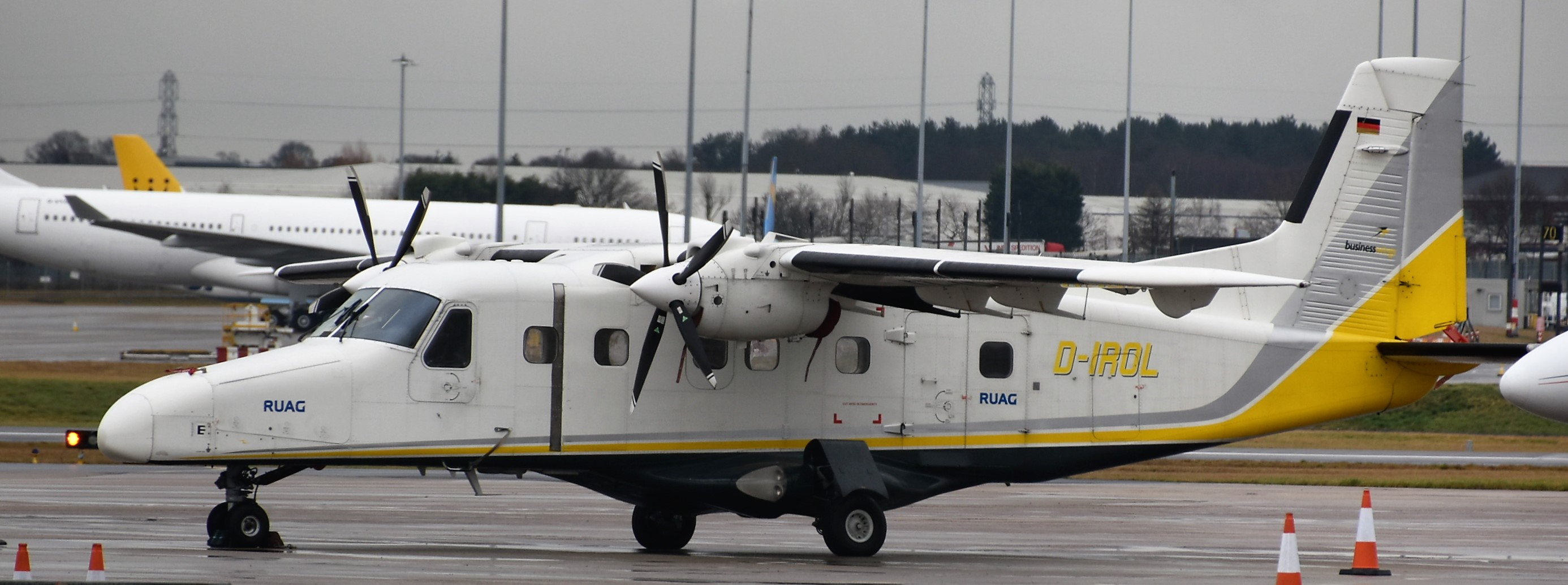 Dornier Do.228 of Business Wings at Birmingham-BHX, 01/02/17.